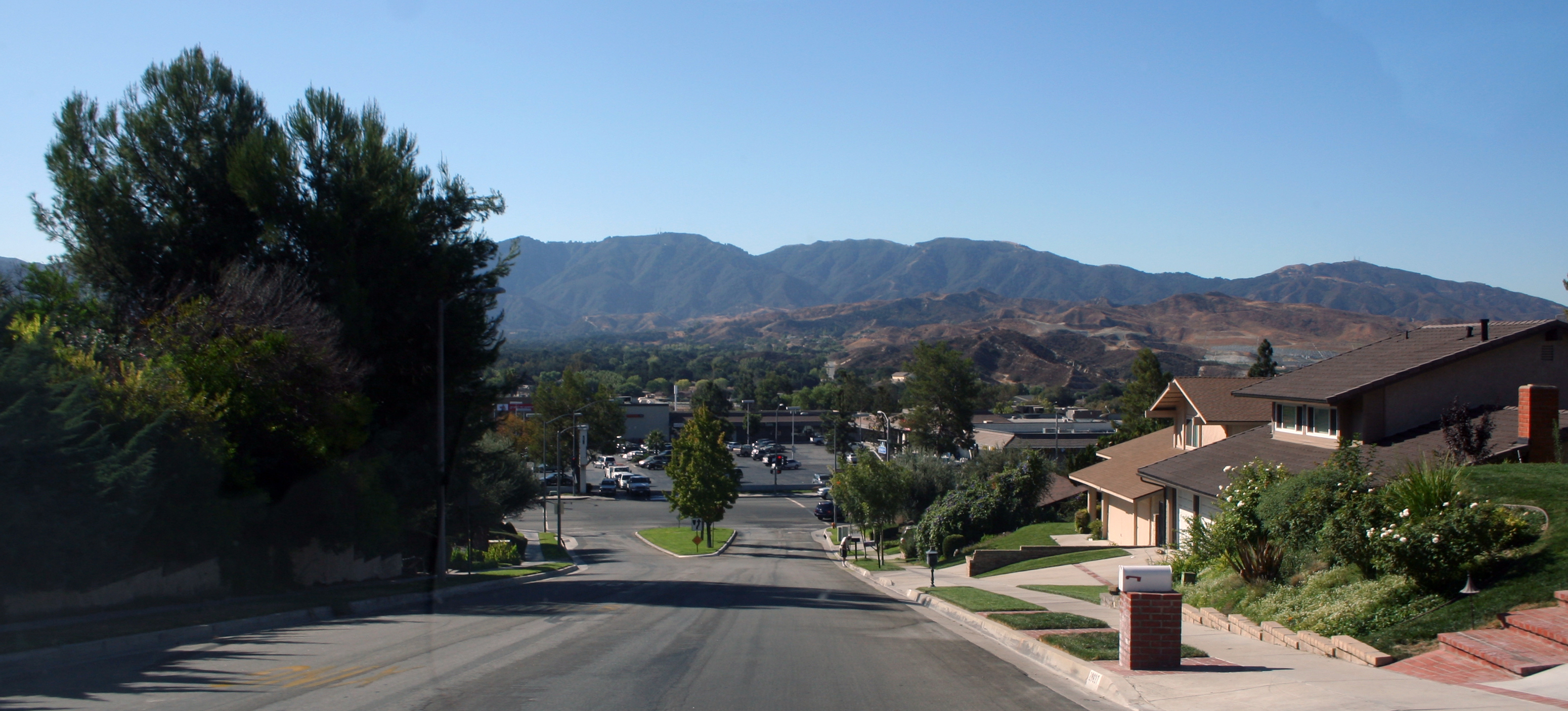 Kenroy and Soledad Canyon Roads Near Sand Canyon Road. Canyon Country, Santa Clarita, California, in September 2008.